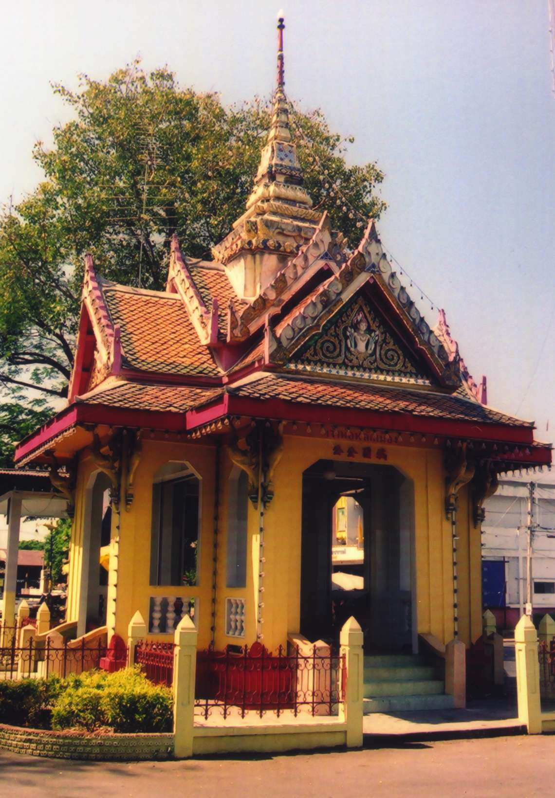 City pillar shrina (Lak Mueang) of Kanchanaburi, Thailand. Photo taken by User:Ahoerstemeier on January 26 2005.